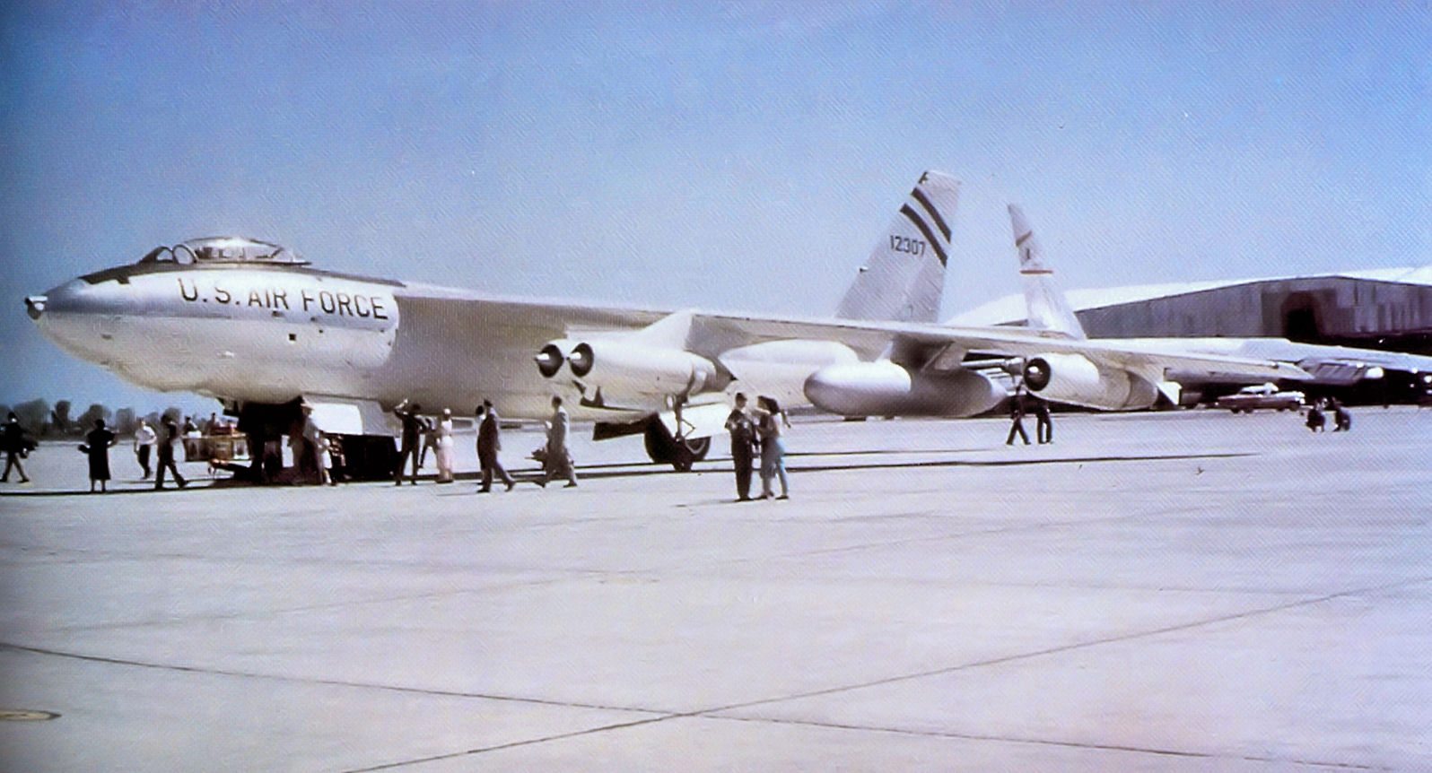 320th Bombardment Wing Boeing B-47B-50-BW Stratojet 51-2307 (noted by two diagonal stripes on tail). Aircraft retried to MASDC Sept 1960